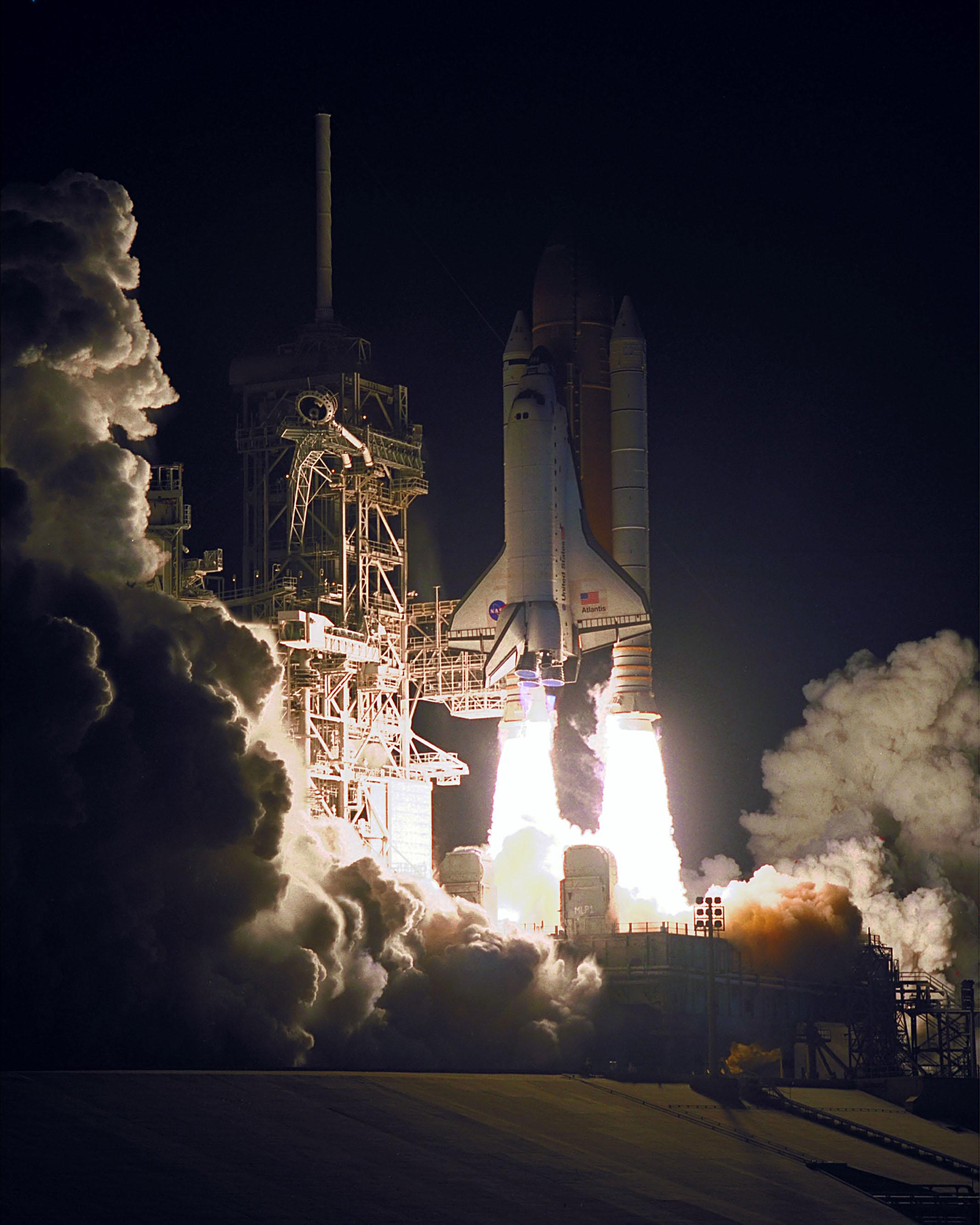 As Space Shuttle Atlantis lifts off from Launch Pad 39A on mission STS-101, twin columns of smoke from the solid rocket boosters trail behind. Liftoff occurred on time at 6:11:10 a.m. EDT. The mission is taking the crew of seven to the International Space Station to deliver logistics and supplies as well as to prepare the Station for the arrival of the Zvezda Service Module, expected to be launched by Russia in July 2000. Also, the crew will conduct one space walk and will reboost the space station from 230 statute miles to 250 statute miles. This will be the third assembly flight to the Space Station. After a 10-day mission, landing is targeted for May 29 at 2:19 a.m. EDT. This is the 98th Shuttle flight and the 21st flight for Shuttle Atlantis.